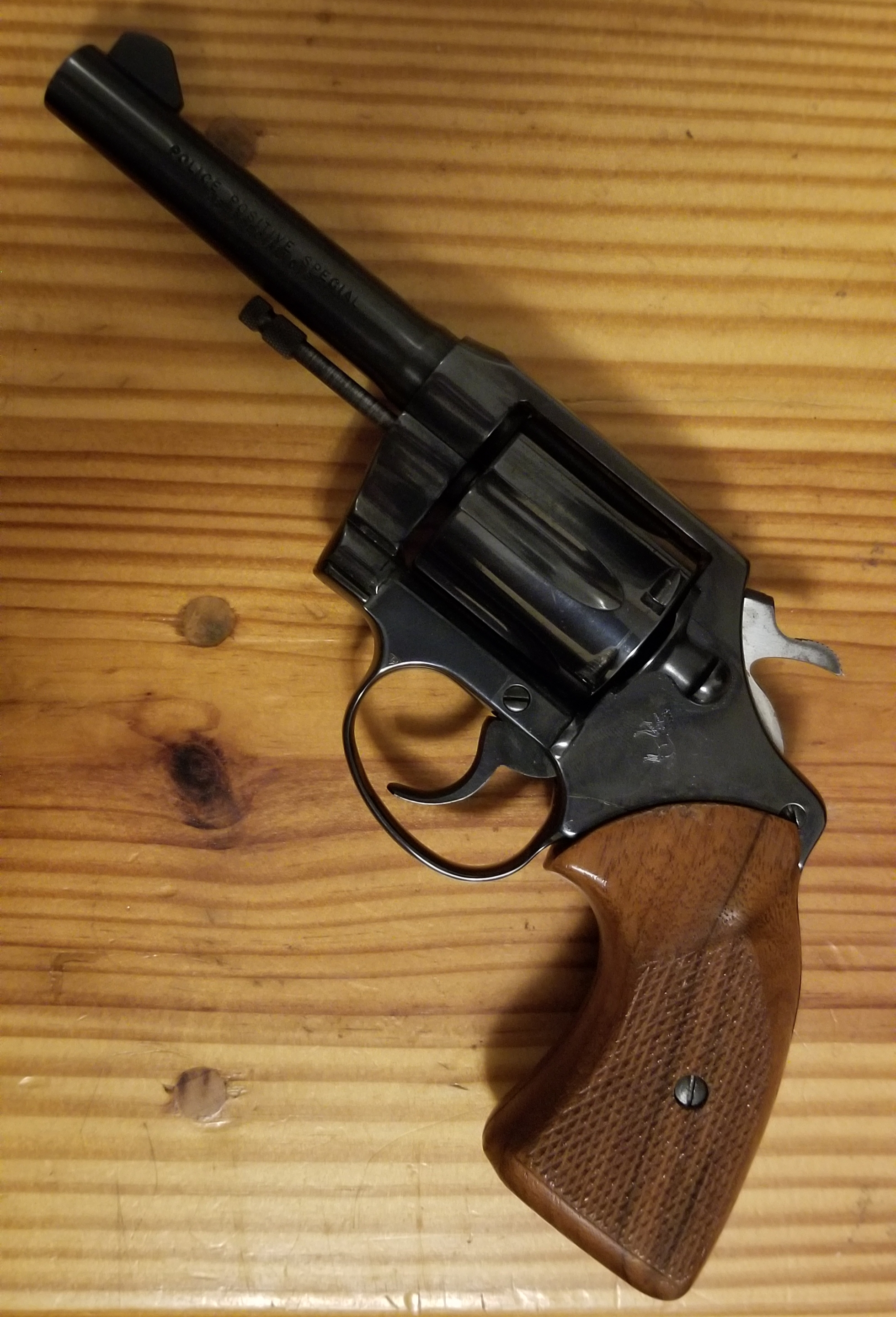 Colt Police Positive Special chambered in 38 special, manufactured in 1977